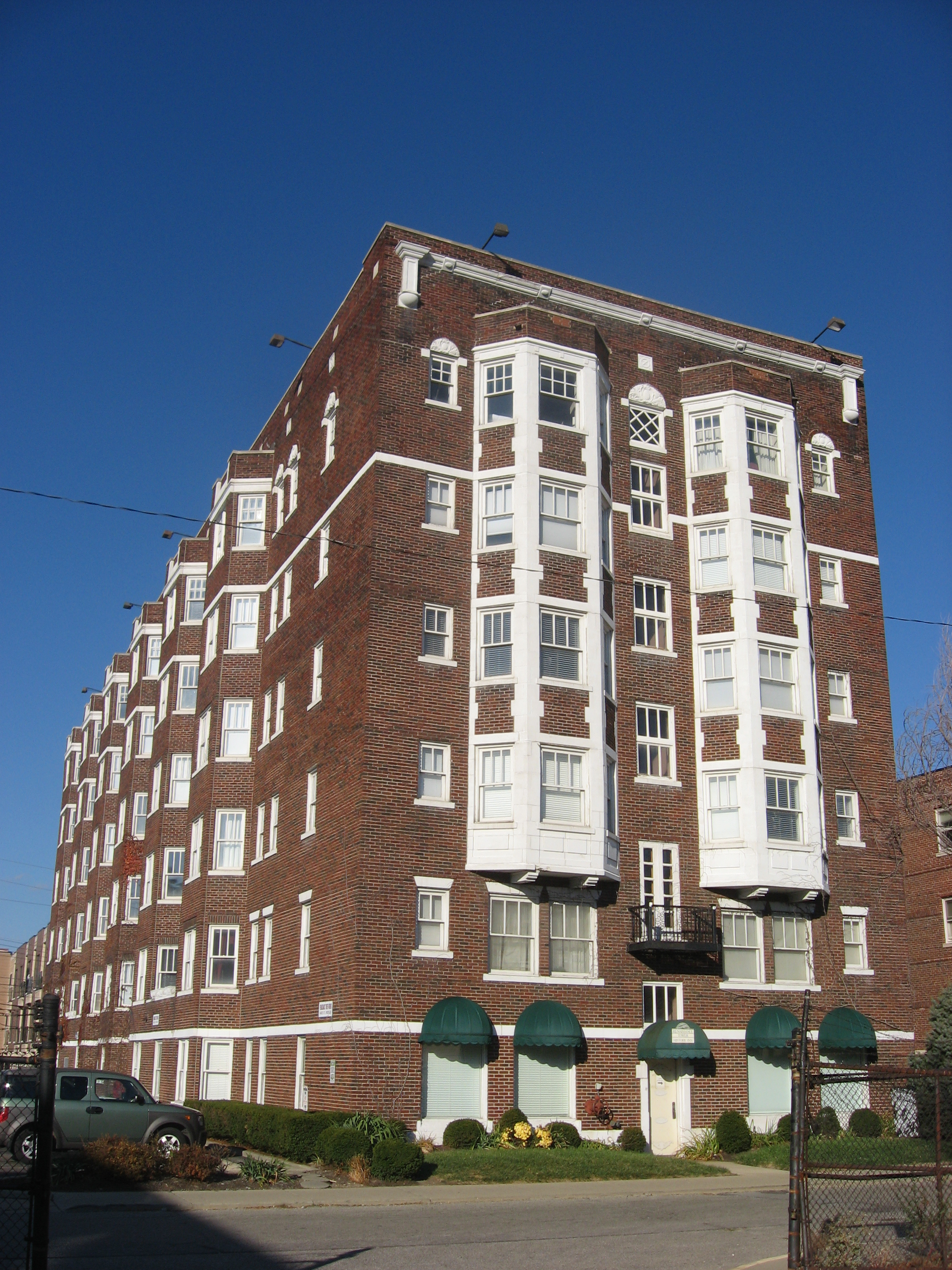 Front and western side of The Spink, located at 230 E. Ninth Street in Indianapolis, Indiana, United States. Built in 1922, it is listed on the National Register of Historic Places.